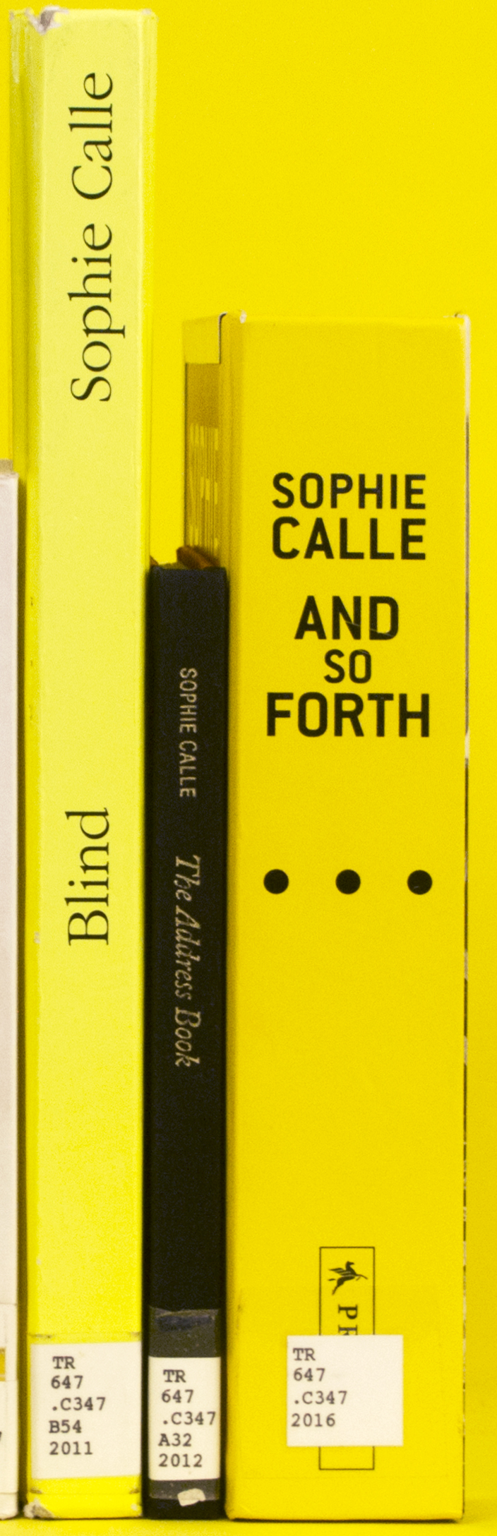 Three Sophie Calle books with different orientation of spine titling.